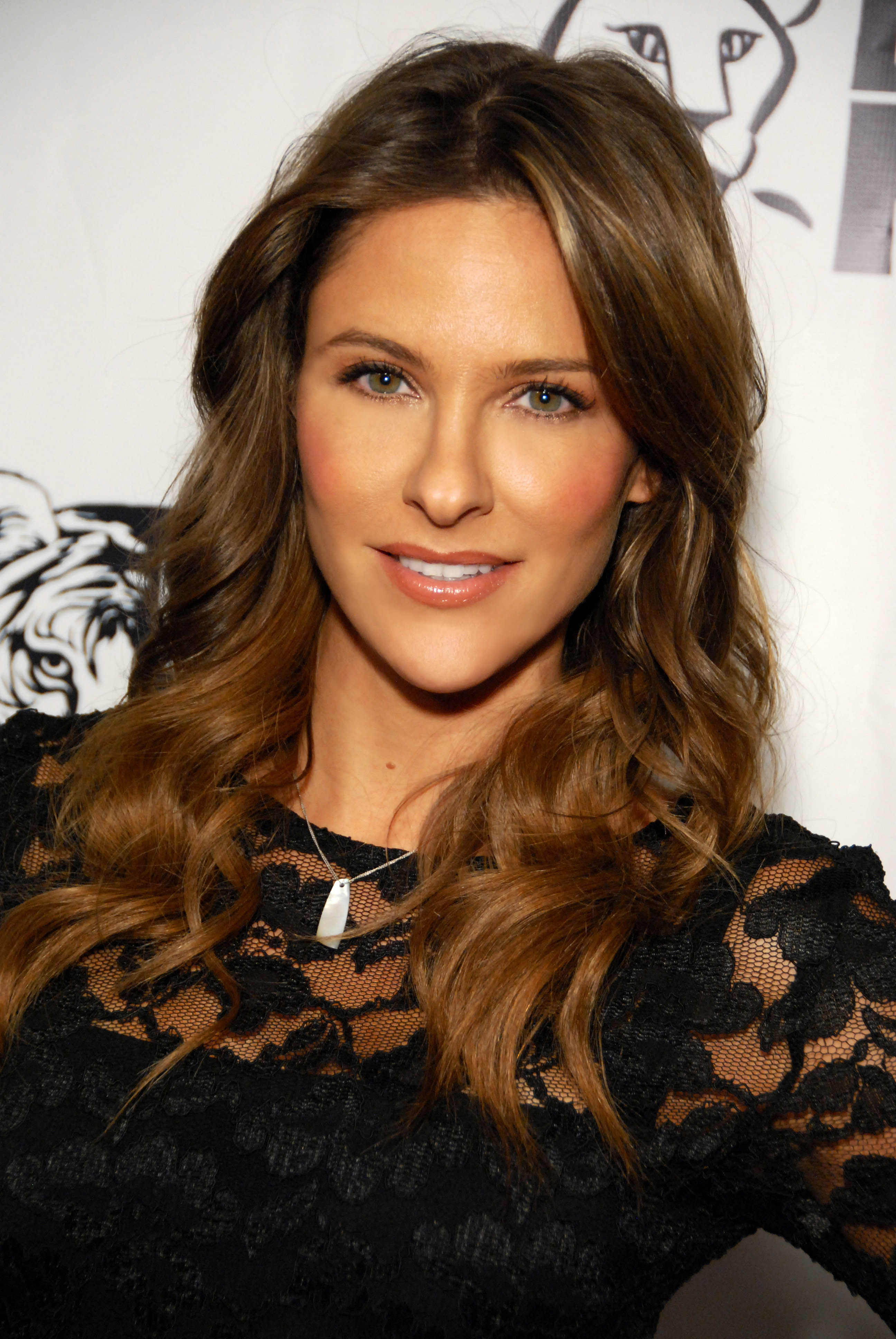 Jill Wagner, Hollywood, California on November 10, 2012 - Photo by Glenn Francis of